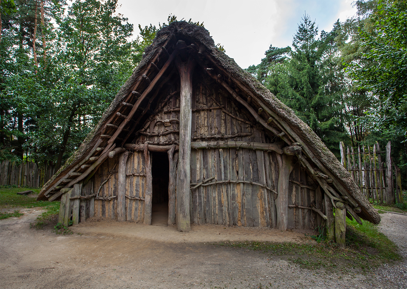 Reconstruction of a house from the neolithic period at Archäologisches Freilichtmuseum Oerlinghausen